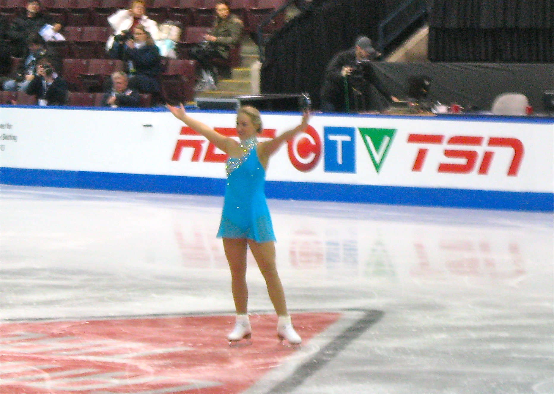 Figure skater Alexe Gilles performing her short program during the 2013 Canadian Figure Skating Championships at the Hershey Centre in Mississauga, Ontario